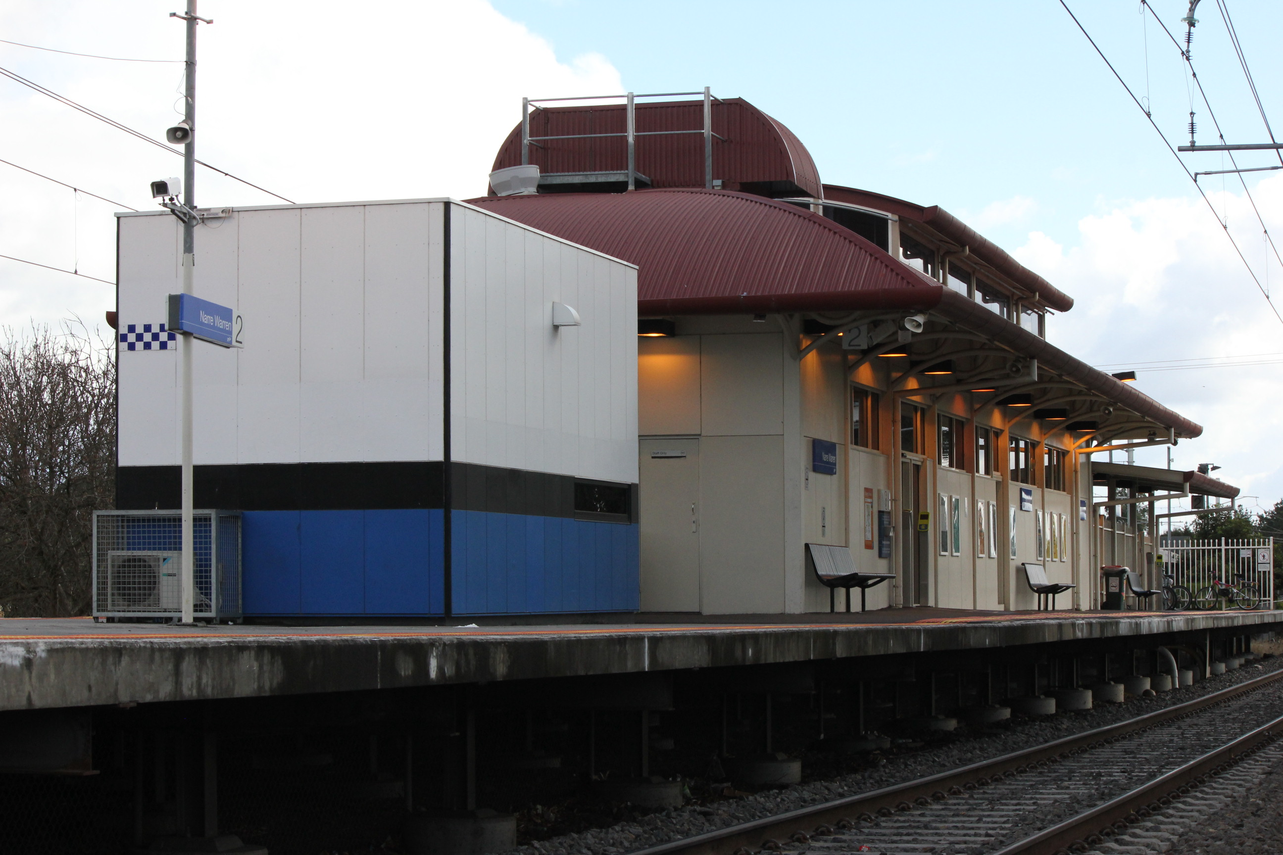 Overview of Narre Warren station, looking west towards Flinders Street, May 2017